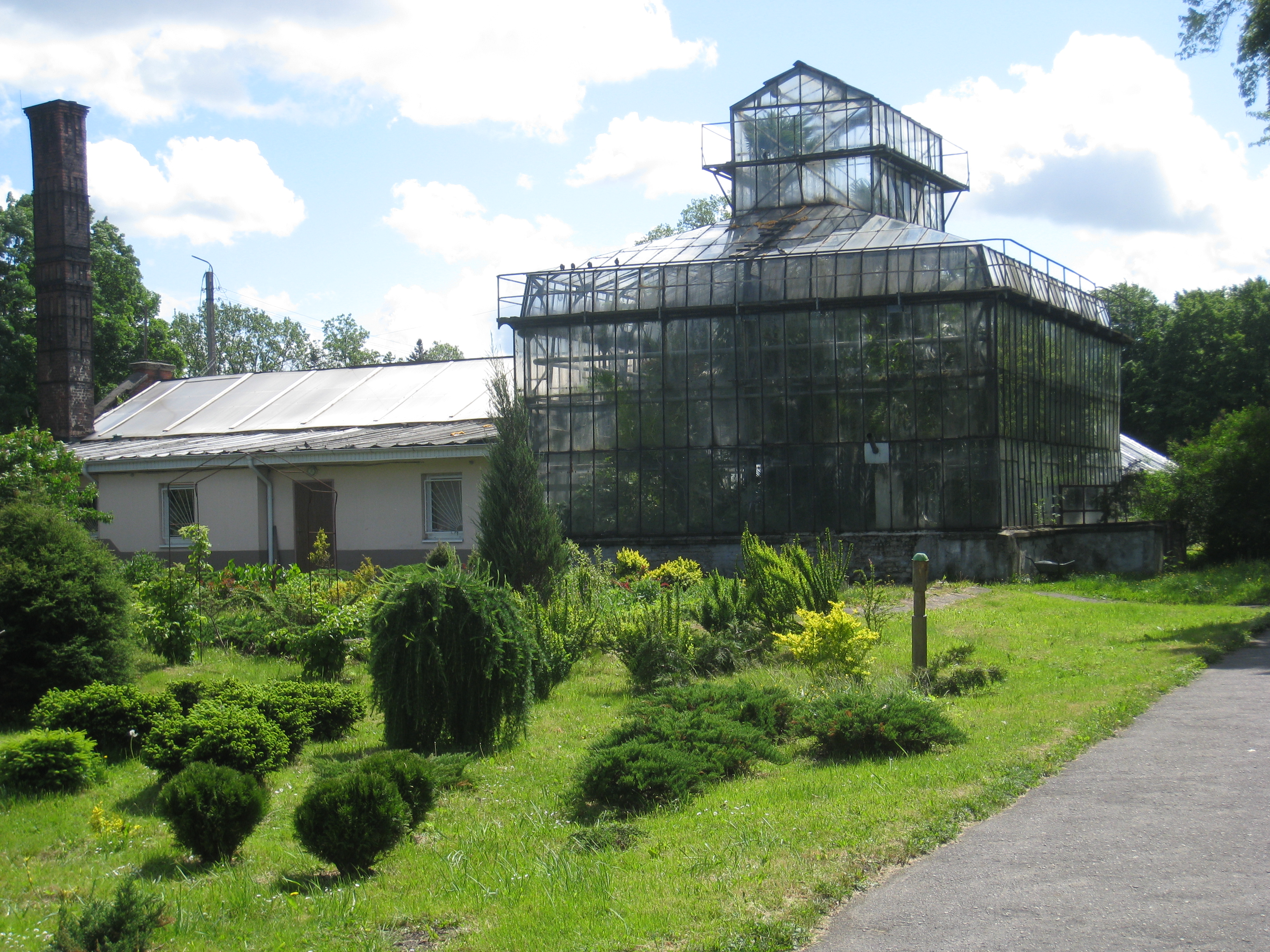 greenhouse